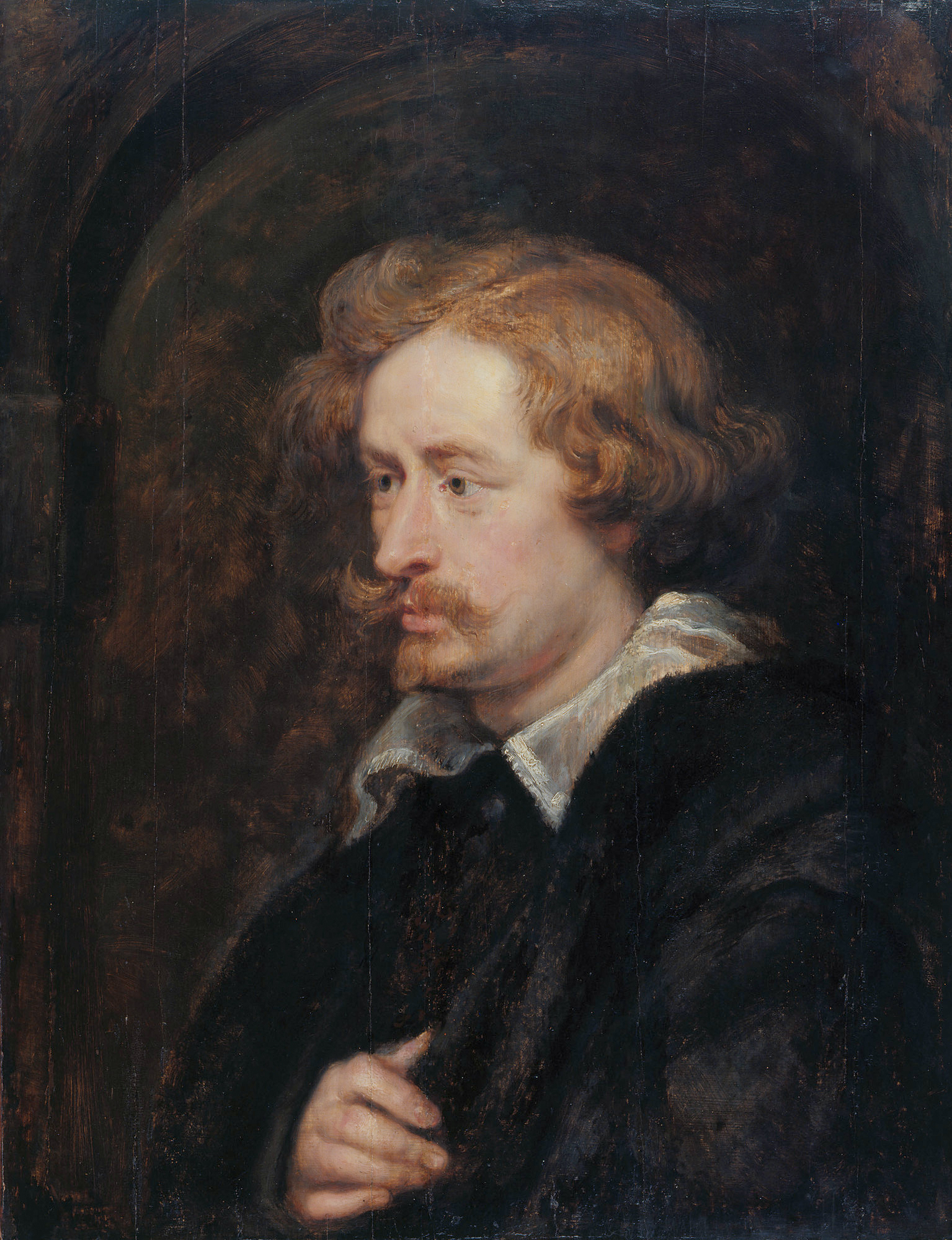 Anthony Van Dyck oil on panel 64.9 x 49.9 cm circa 1627-1628